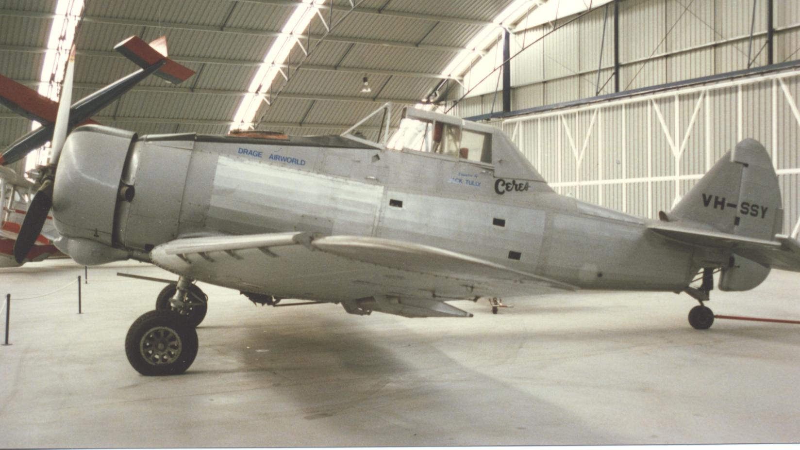 Commonwealth CAC-28 Ceres at Drage Air World, Wangaratta, Victoria, Australia in March 1988